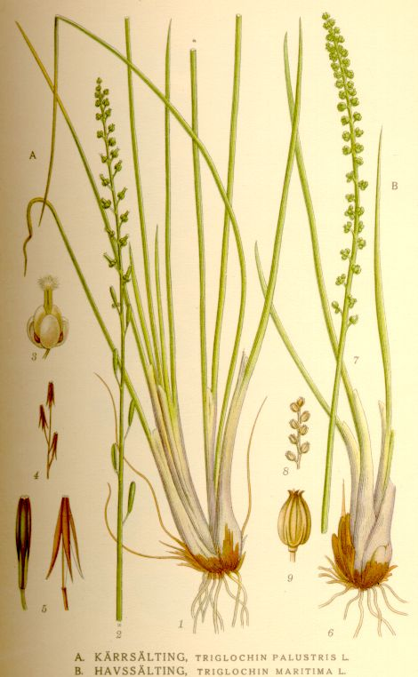 Triglochin palustris (syn. T. palustre) and Triglochin maritima (syn. T. maritimum)